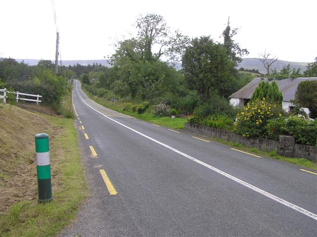 Road at Largydonnell Heading south